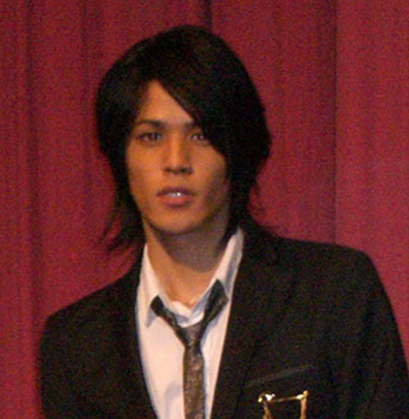 Taken from a Flickr account.